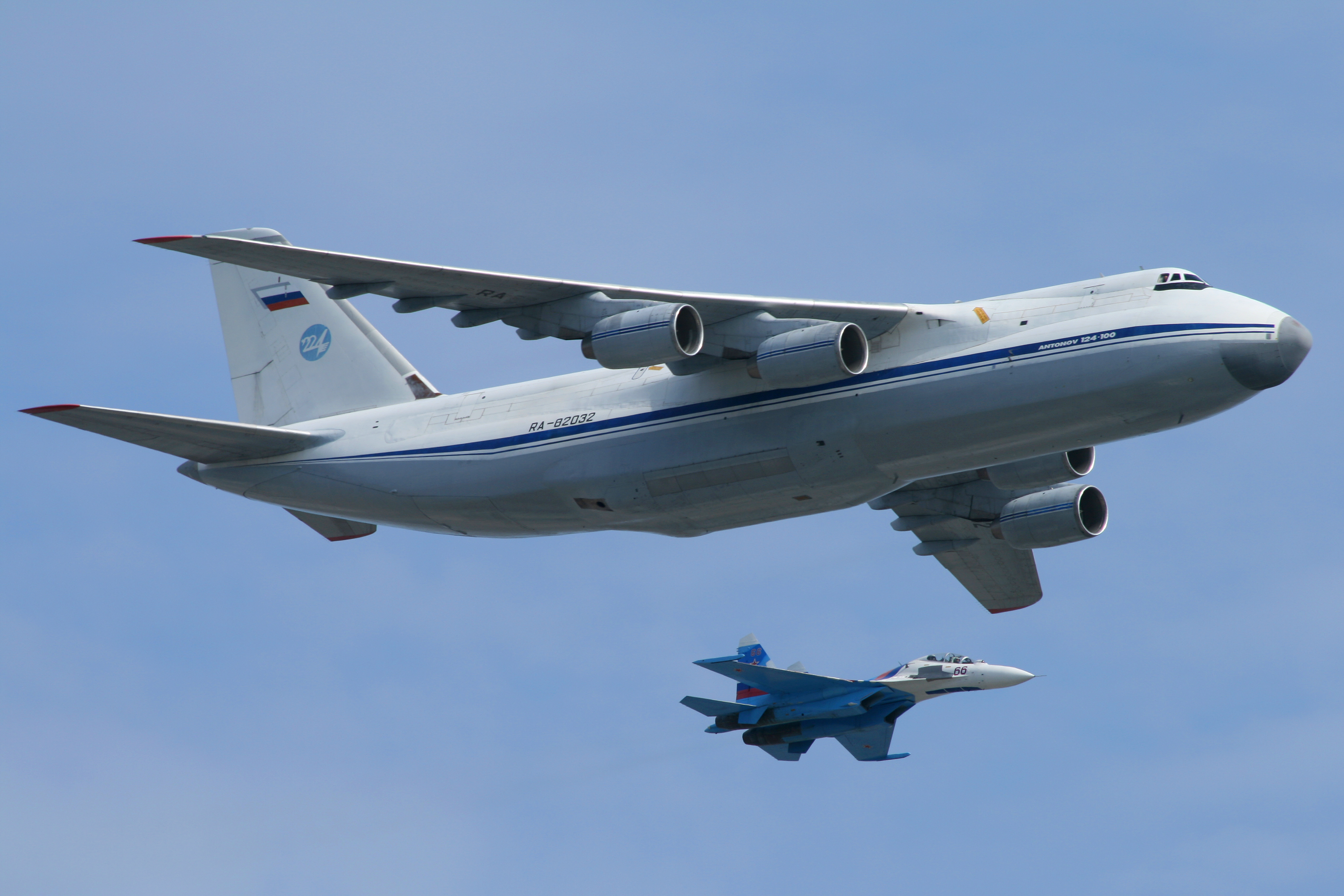 224th Flight Unit Antonov An-124-100